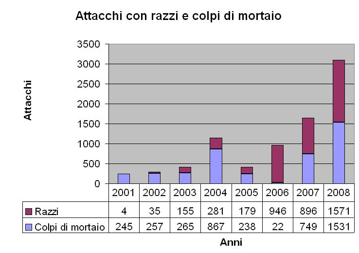 Number of Morter and Rocket Attacks on Israel 2001-2008-it.